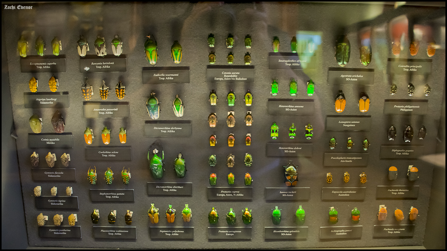 Copper Beetles חיפושיות נחושתיות Cetoniinae Vienna Natural History Museum, Austria, 2014 Wien Naturhistorisches Museum, Osterreich, 2014 המוזיאון להיסטוריה של הטבע, וינה, אוסטריה, 2014 This image was created by Zachi Evenor צחי אבנור and is released under Creative Commons CC-BY license. When using this image credit it to Zachi Evenor (in Hebrew for use in Israel: צחי אבנור). Please avoid using these images in an abusive or offensive manner. Please link to the original image on Wikimedia Commons or Flickr if possible. For more free to use images visit Category:Photographs by Zachi Evenor. For non-free images visit Flickr: . Enjoy this image :)